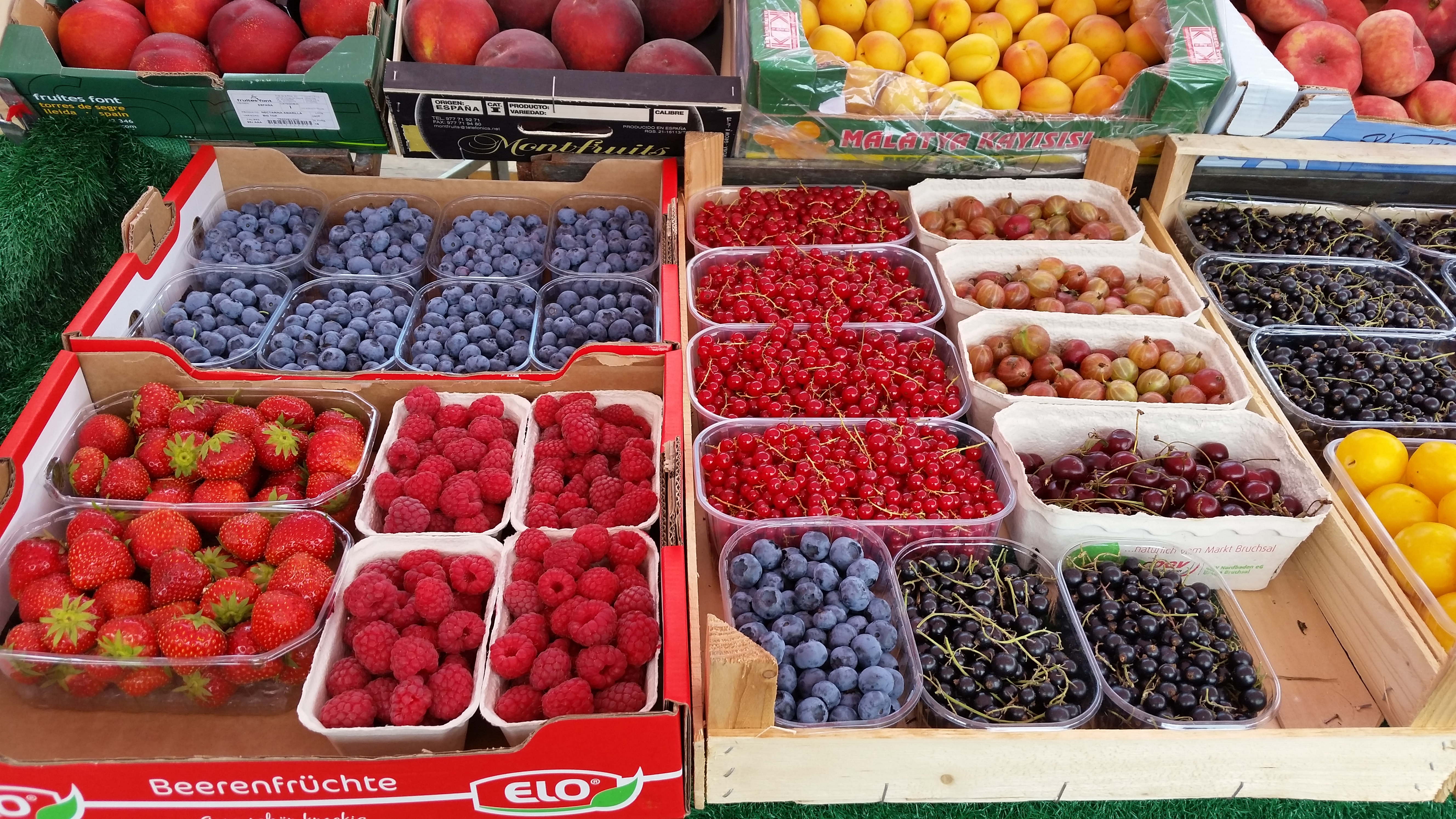 Berries for sale at the market